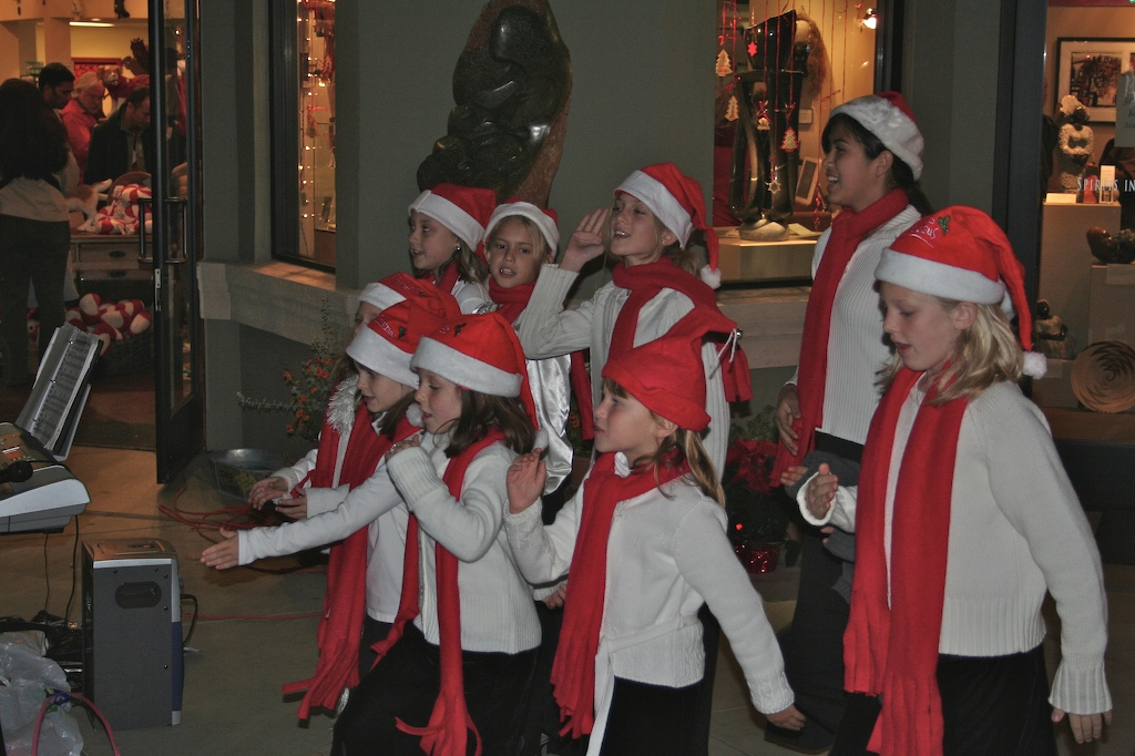 Holiday songs on the streets in SonomaYouth Choir in Healdsburg